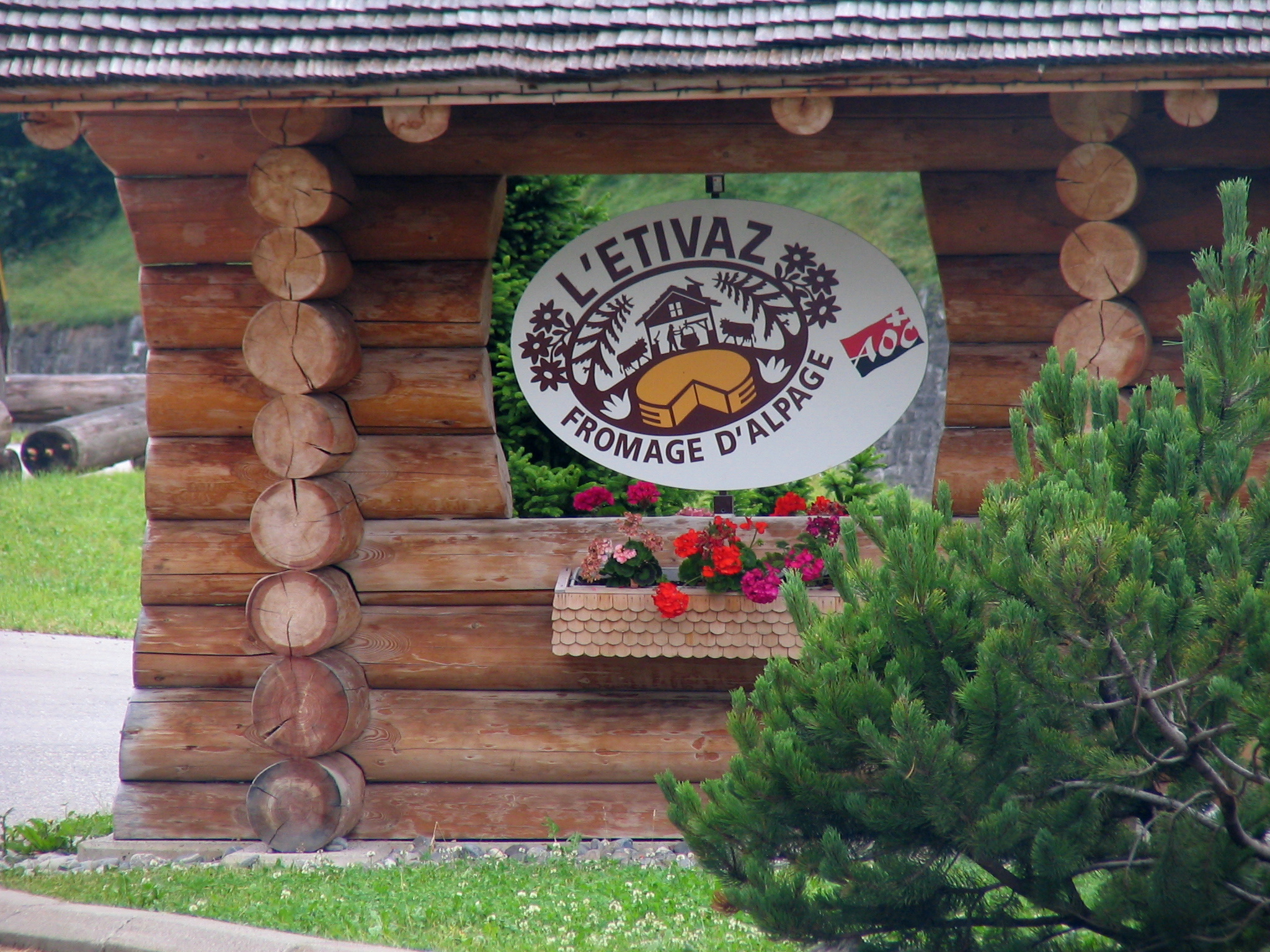 Street sign in L'Etivaz: a village in Switzerland and a cow's-milk cheese (product with protected designation of origin)